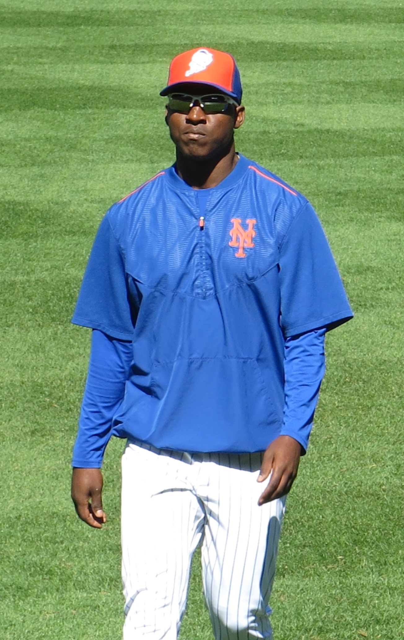 Rafael Montero and Gabriel Ynoa of the New York Mets, September 25, 2016.